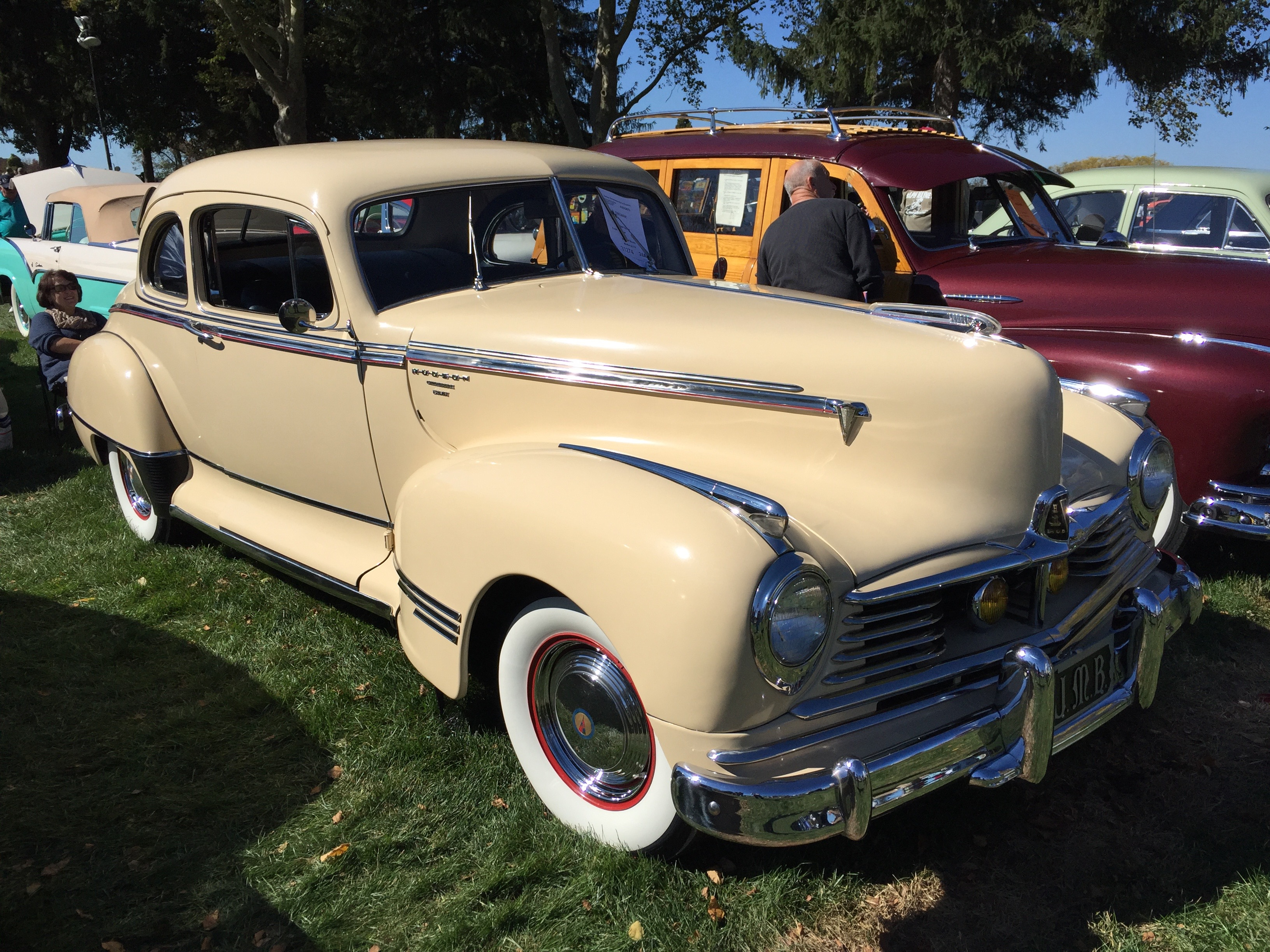 1946 Hudson Commodore Eight, a "top-of-the-line" series in the Club Coupe version. Powered by Hudson's 254 cid (4.16 L) straight-eight engine. This design is a holdover from the pre-WWII 1941-1942 cars. Picture taken on the show field of the Antique Automobile Club of America (AACA) 2015 Hershey meet that is held every October in Pennsylvania.